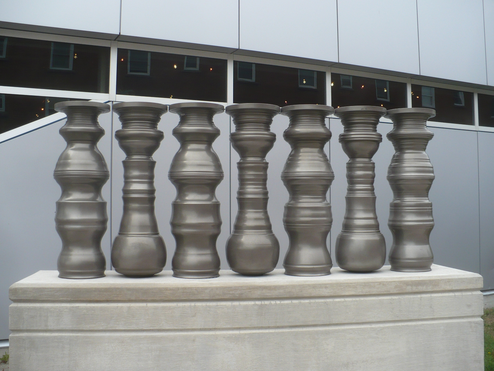 Greg Payce pottery "Alumina, 2008" outside the Burlington Art Centre in Burlington, Ontario Artist Statement: In my pottery, relationships between forms and images make connections between objects and ideas. Inspired by late eighteenth century French Sevres vase garnitures and Renaissance Mediterranean apothecary jars (albarelli), these works utilize the negative spaces between pottery forms as apertures or images. The viewer's gaze vacillates back and forth between the positive and negative components inviting them to determine possible relationships between the vessel forms and the images created by the negative space between these forms. This occillation between image and object creates an illusion of movement which references time-based art forms as animation and music. Metaphorically this movement speaks to changes during growth, sexual differentiation and aging which are also incorporated into the pieces. I see these works as three-dimensional mainifestations of pottery decoration, and not as sculpture. Images generated by the garnitures often inspire two-dimensional vase decoration and vice versa.